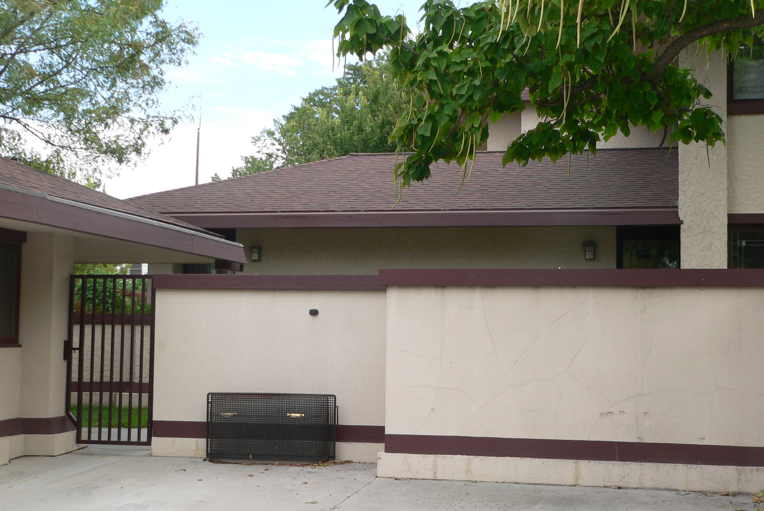 Harvey P. Sutton House in McCook, Nebraska. At left, mostly outside the frame, is the garage. In the center, mostly hidden by the wall, is a one-story addition at the house's northwest corner. View is from the west.